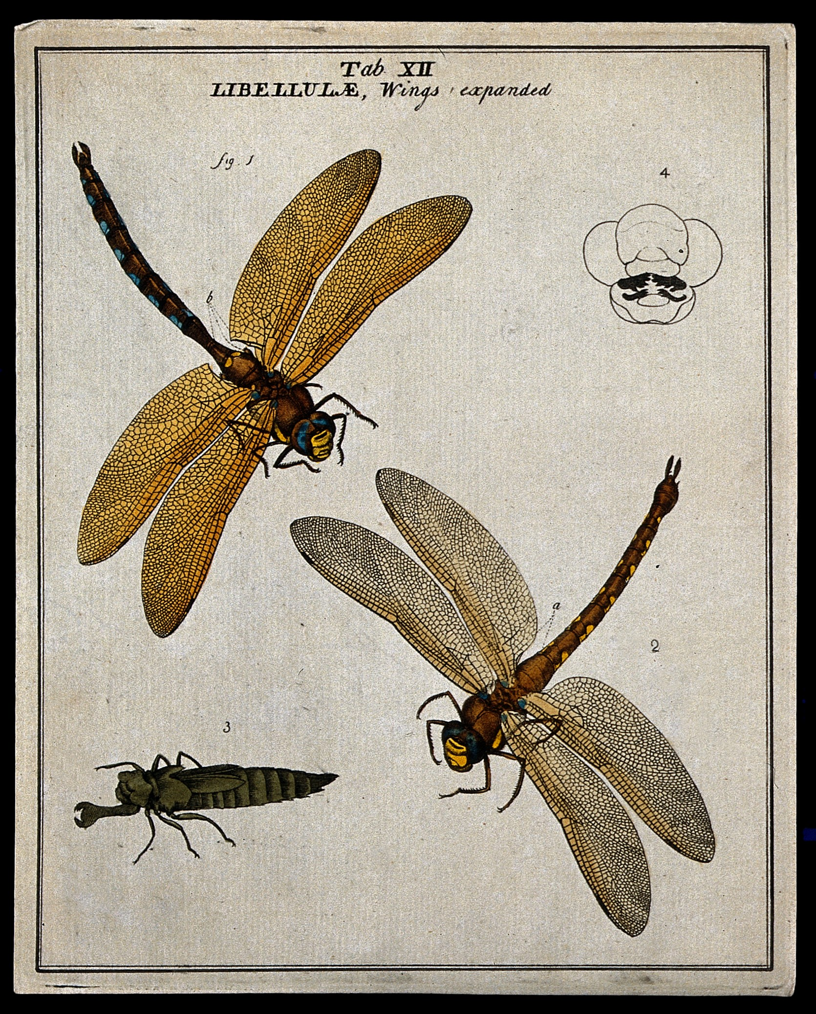 Two dragonflies (Libellulæ species): adults and larva. Coloured etching by Moses Harris, ca. 1766. Iconographic Collections Keywords: Moses Harris